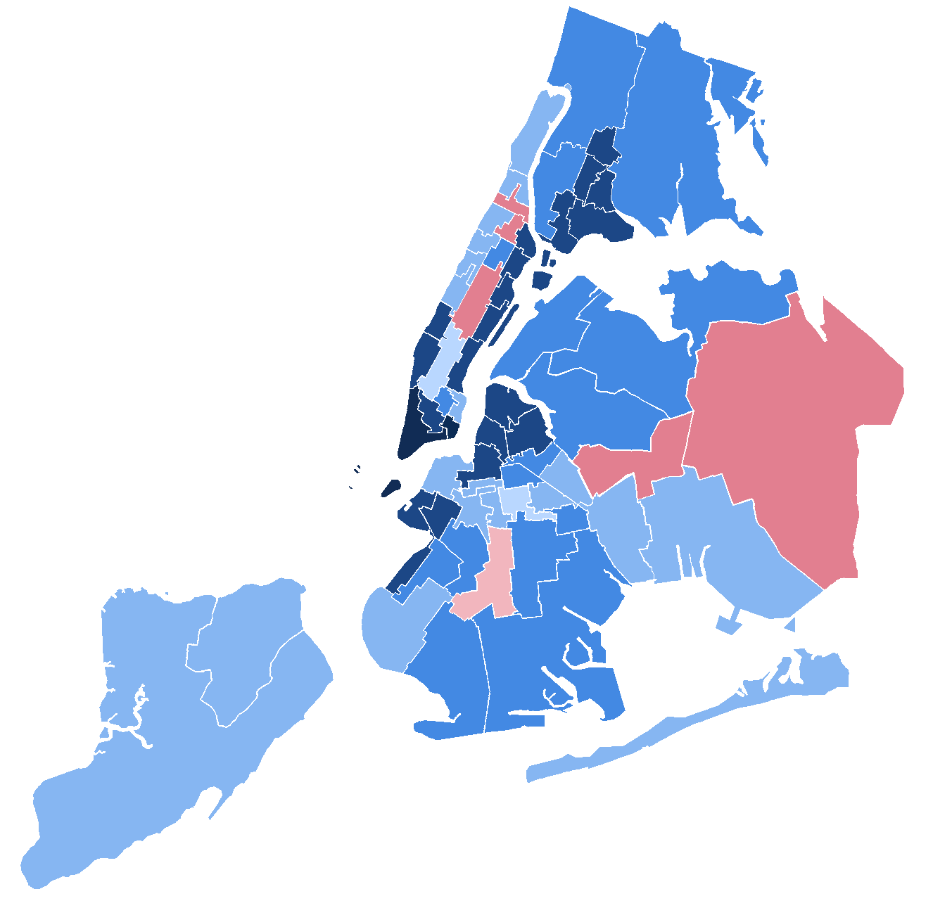 Results of the 1928 United States presidential election by New York City Assembly district. Information courtesy of the Brooklyn Daily Eagle, November 7, 1928. As the figures provided in that paper do not match exactly with more authoritative recapitulations of New York City's overall results, it is useful only for the percentages of votes received by each candidate as depicted here rather than the exact numbers thereto.